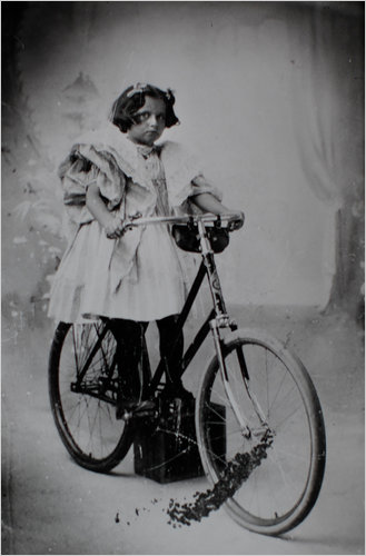 Virginia O'Hanlon from the 1890s.